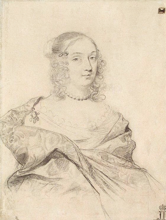 Portrait of Marie Louise Gonzaga de Nevers.